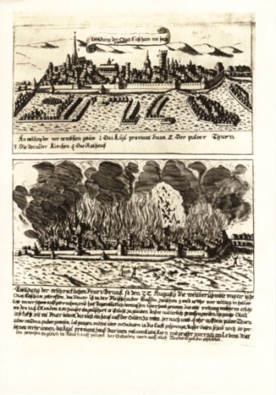 Fire, Košice 1556